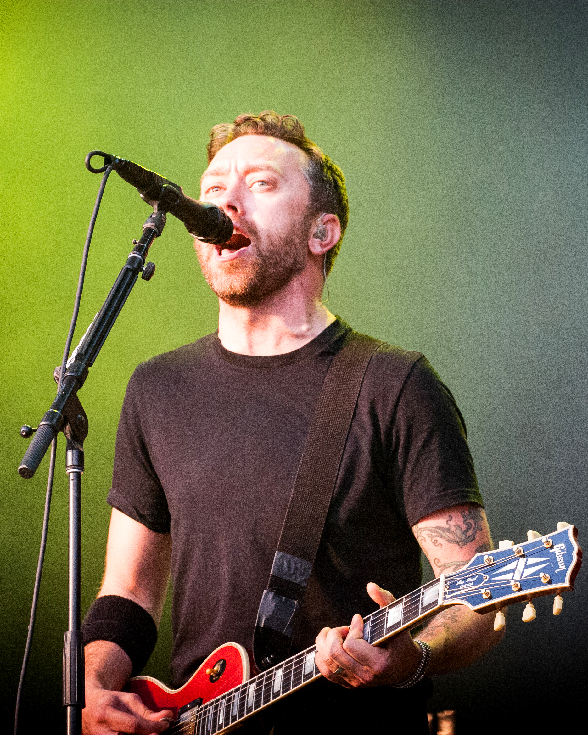 Tim McIlrath in VOLT 2015 festival